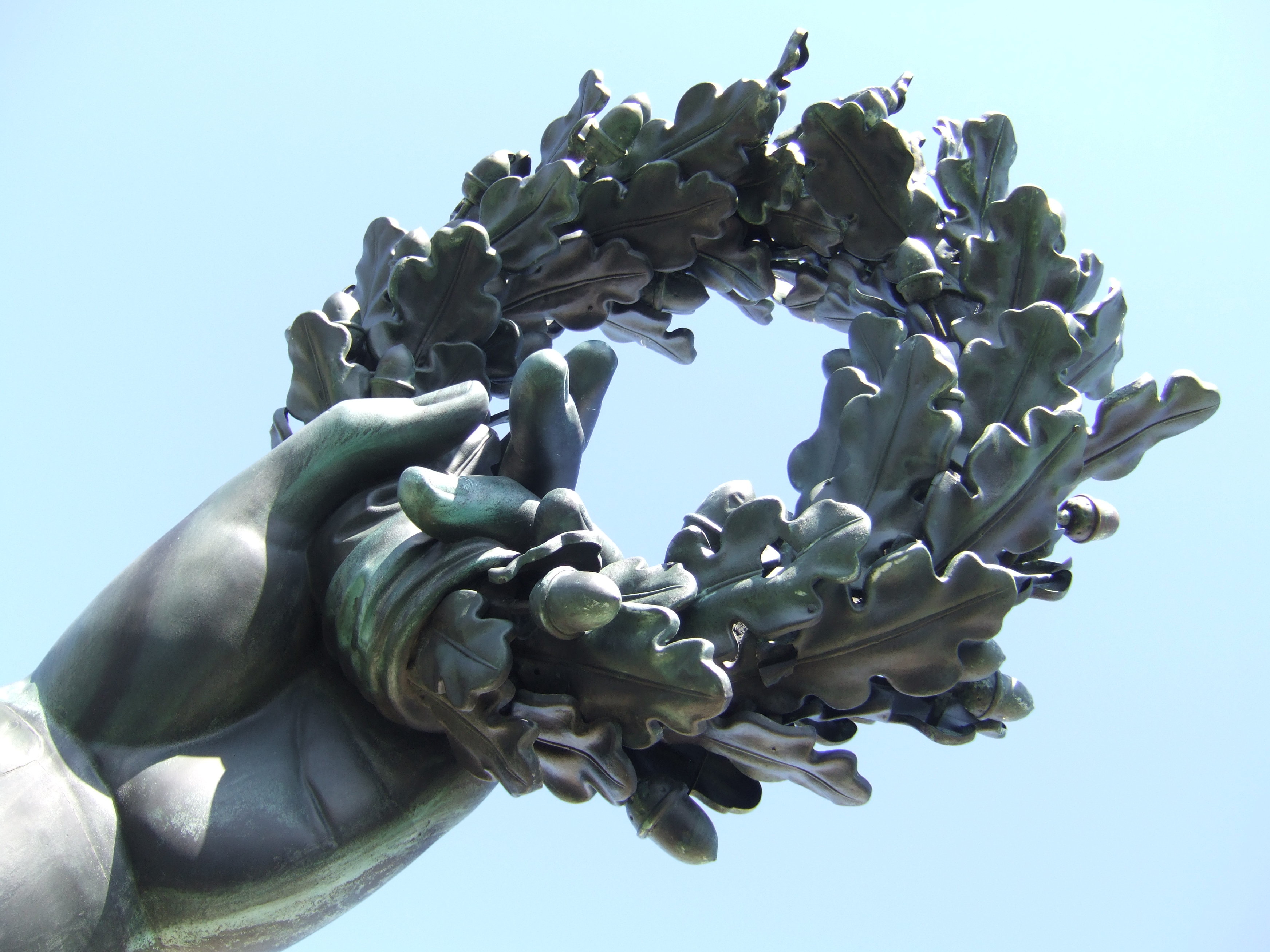 Bavaria statue (Munich): left hand holding a wreath